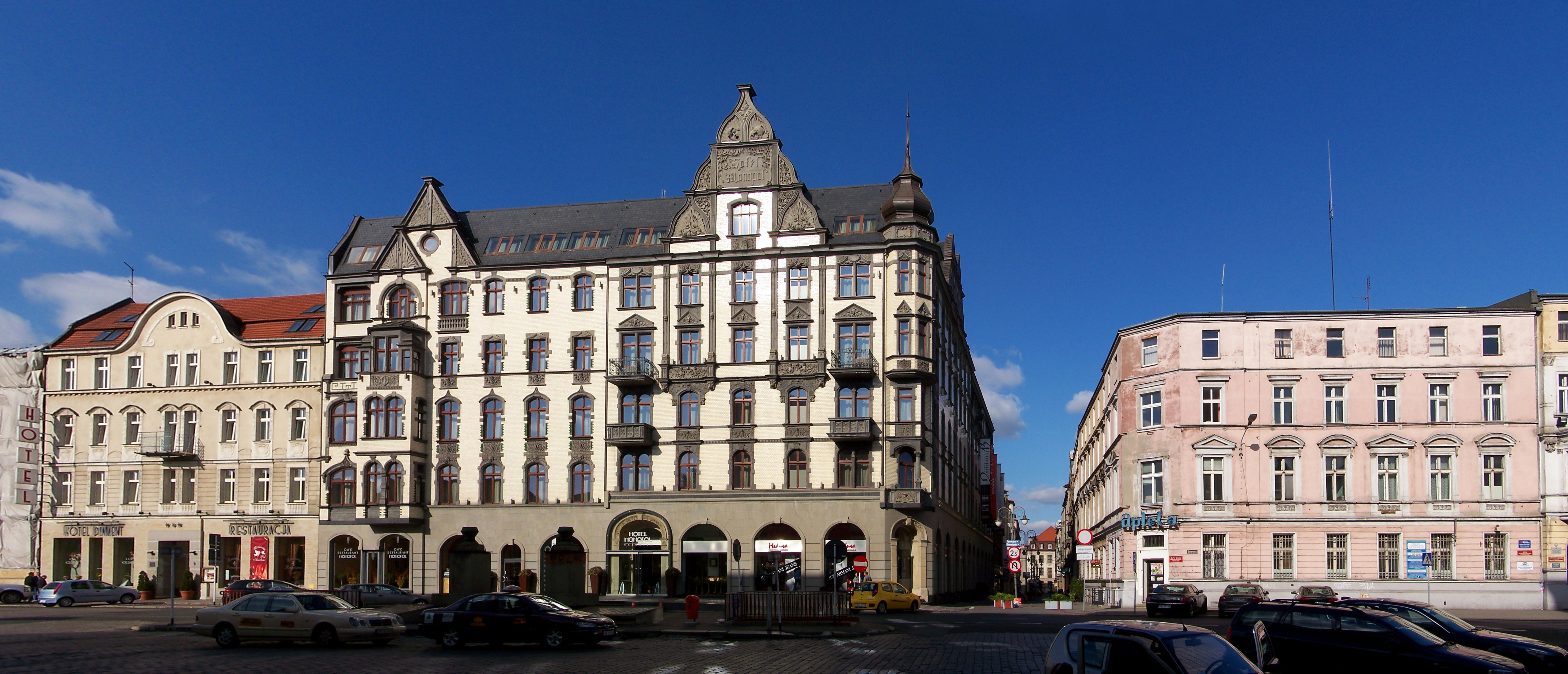 Dworcowa Street in Katowice (Poland).